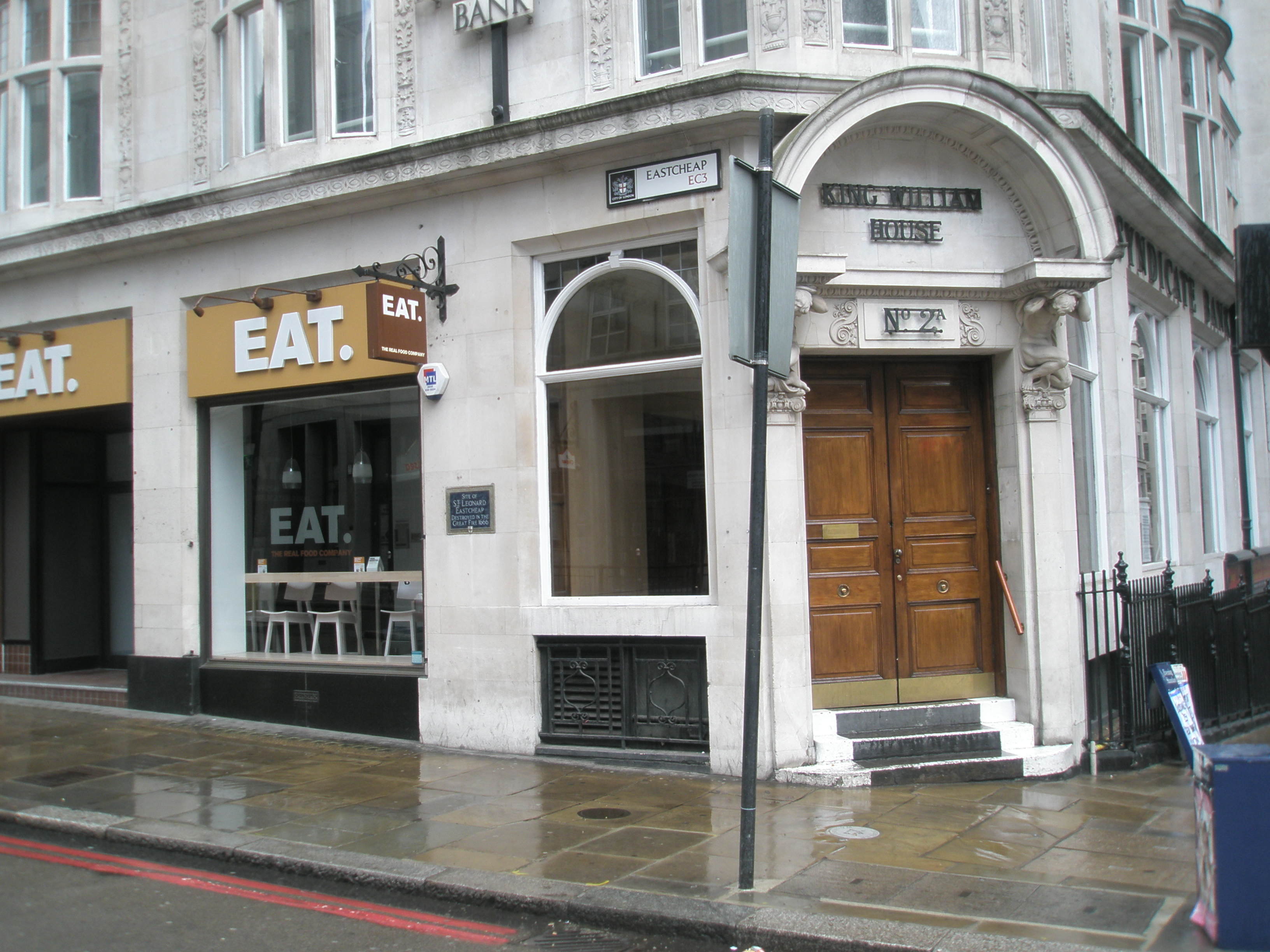 " Eastcheap